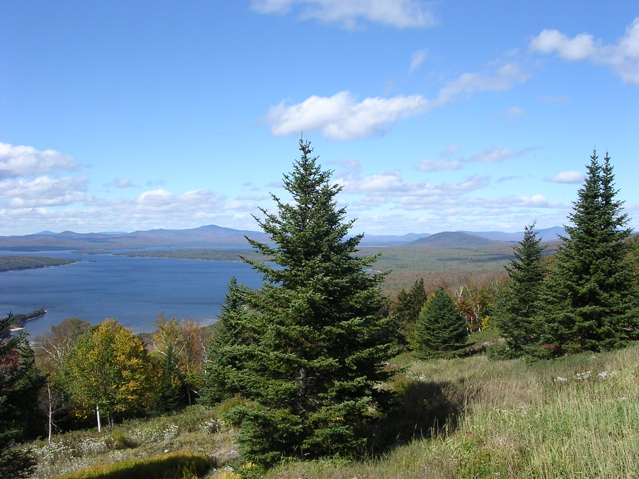 I am the author of this work. It was taken in September, 2003.